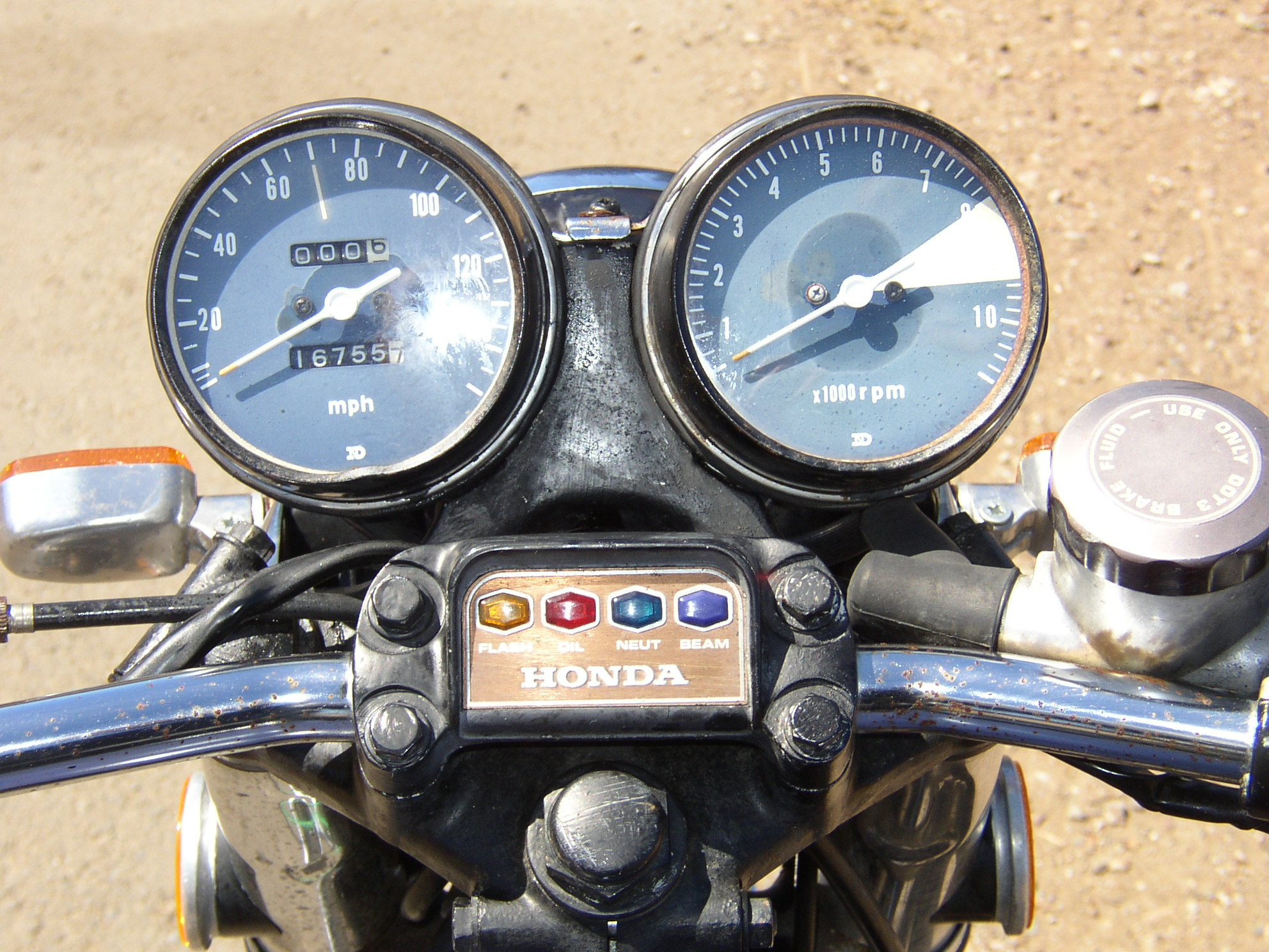 Honda CB750four 1972